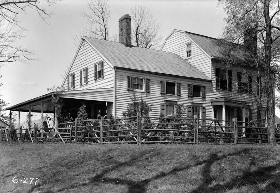 Reproduction Number: HABS NJ,12-NEBRU.V,1--1